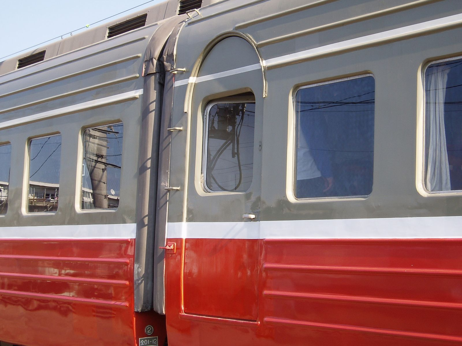 Door of EMU,Odakyu Electric Railway type 3000 series.